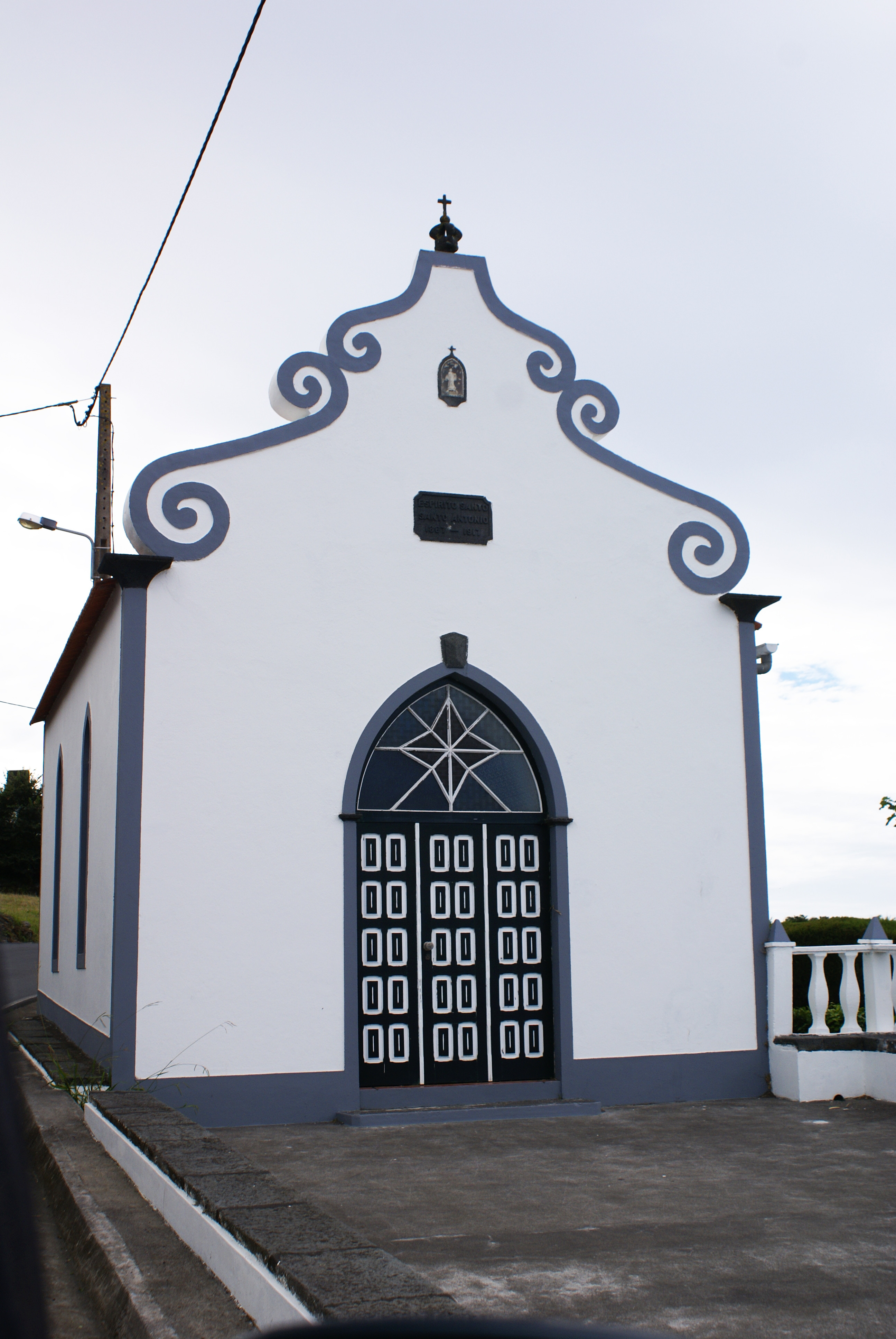 The Império do Espírito Santo of Cascalho, Horta, Faial (Azores), Portugal